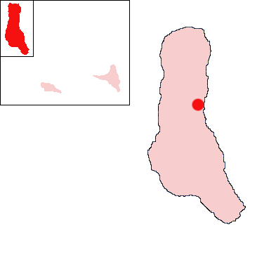 Itsikoudi, Grande Comore, Comoros Location Map; created with the GIMP. Made by User:Acntx.